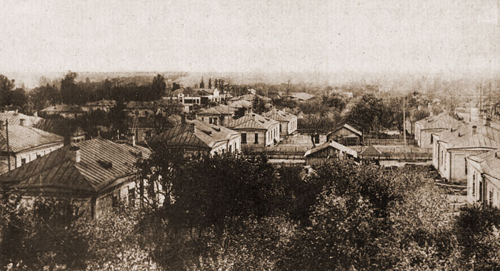 an old photo of Grushky - a historical neighbourhood in Kyiv